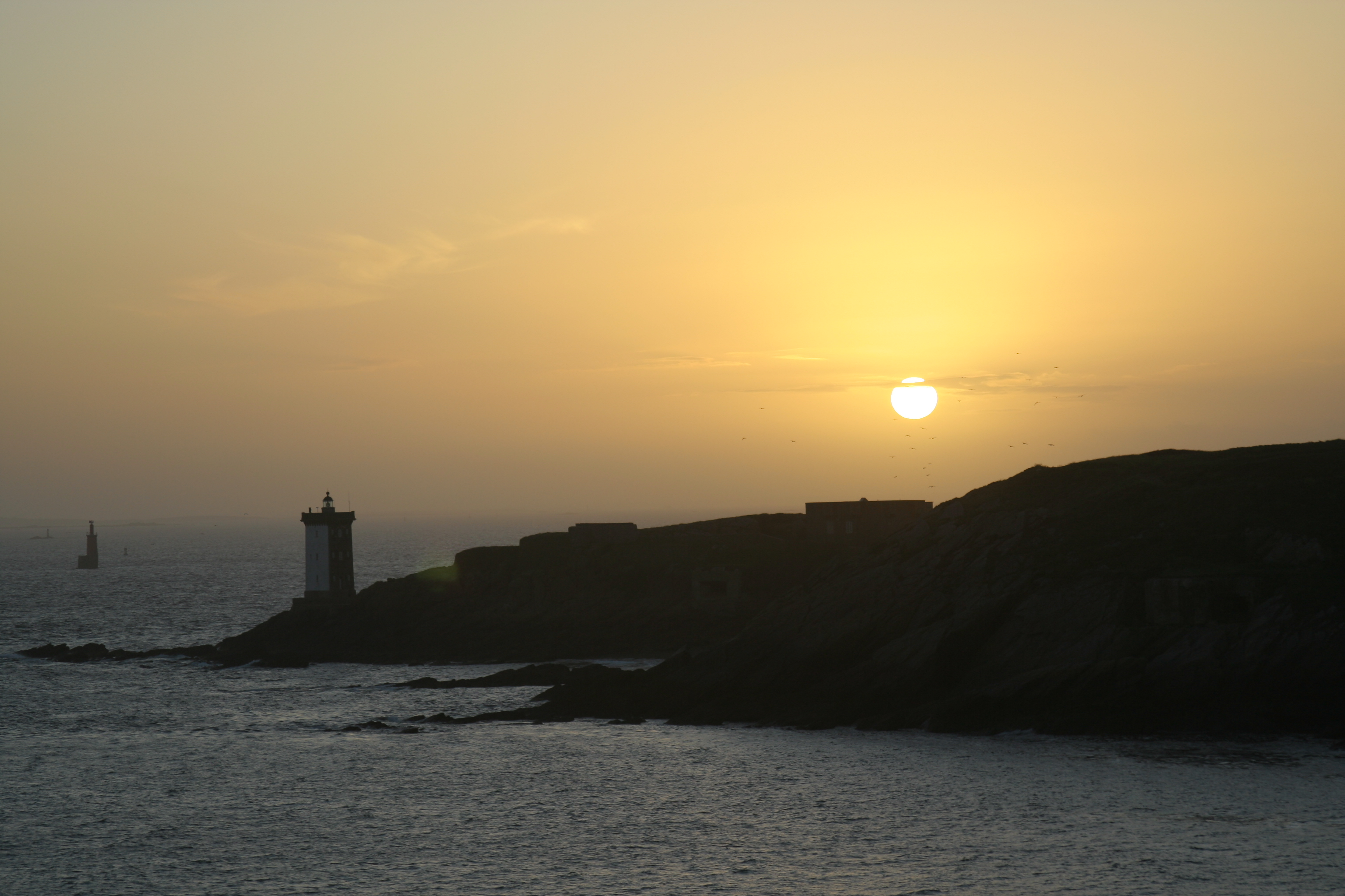 Le Conquet (Kermorvan Lighthouse) during the evening. The lighthouse is in front of the "Le Conquet" port. The lighthouse is remotely controlled from Brest.